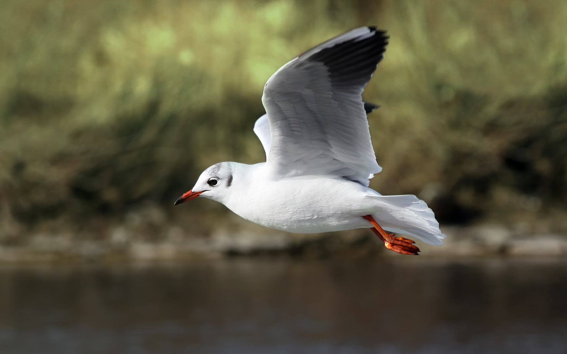 Description: The Black-headed Gull (Chroicocephalus ridibundus) is a small gull which breeds in much of Europe and Asia, and also in coastal eastern Canada.